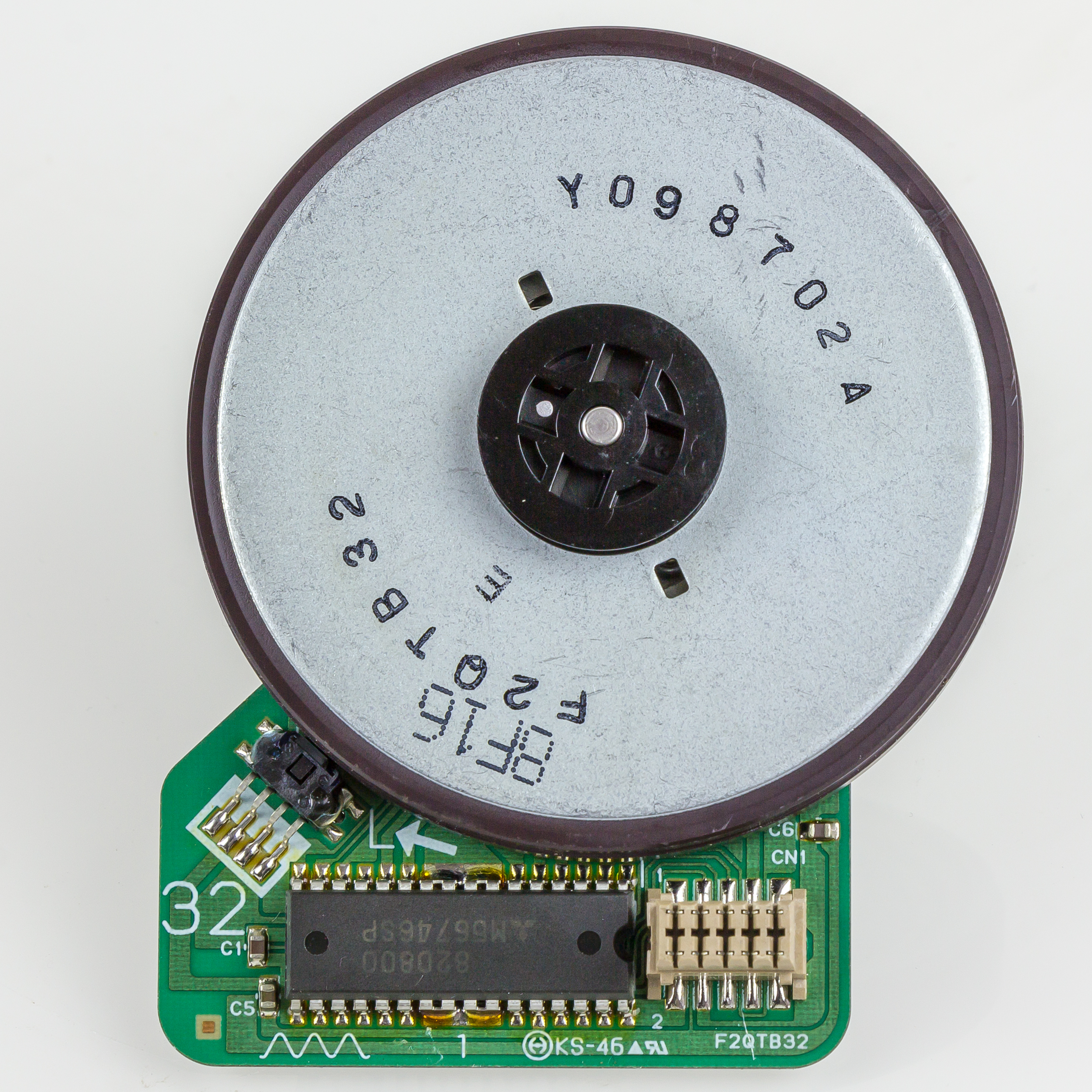 Medion MD8910 - Capstan motor